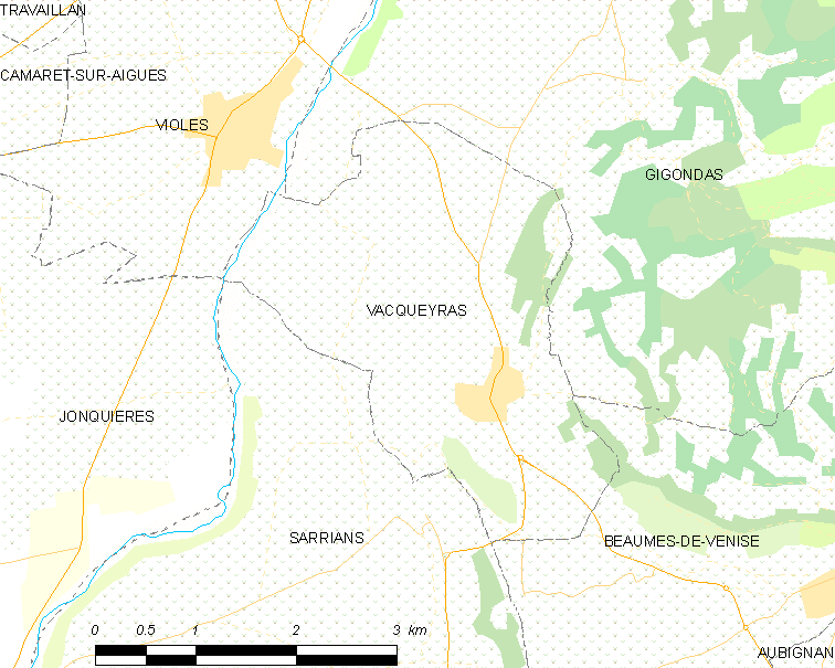 Map of French municipality Vacqueyras